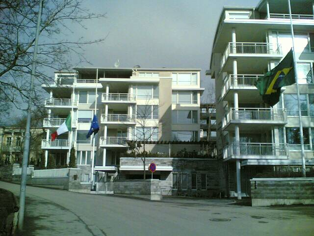 Embassy of Brazil and Italy in Helsinki.